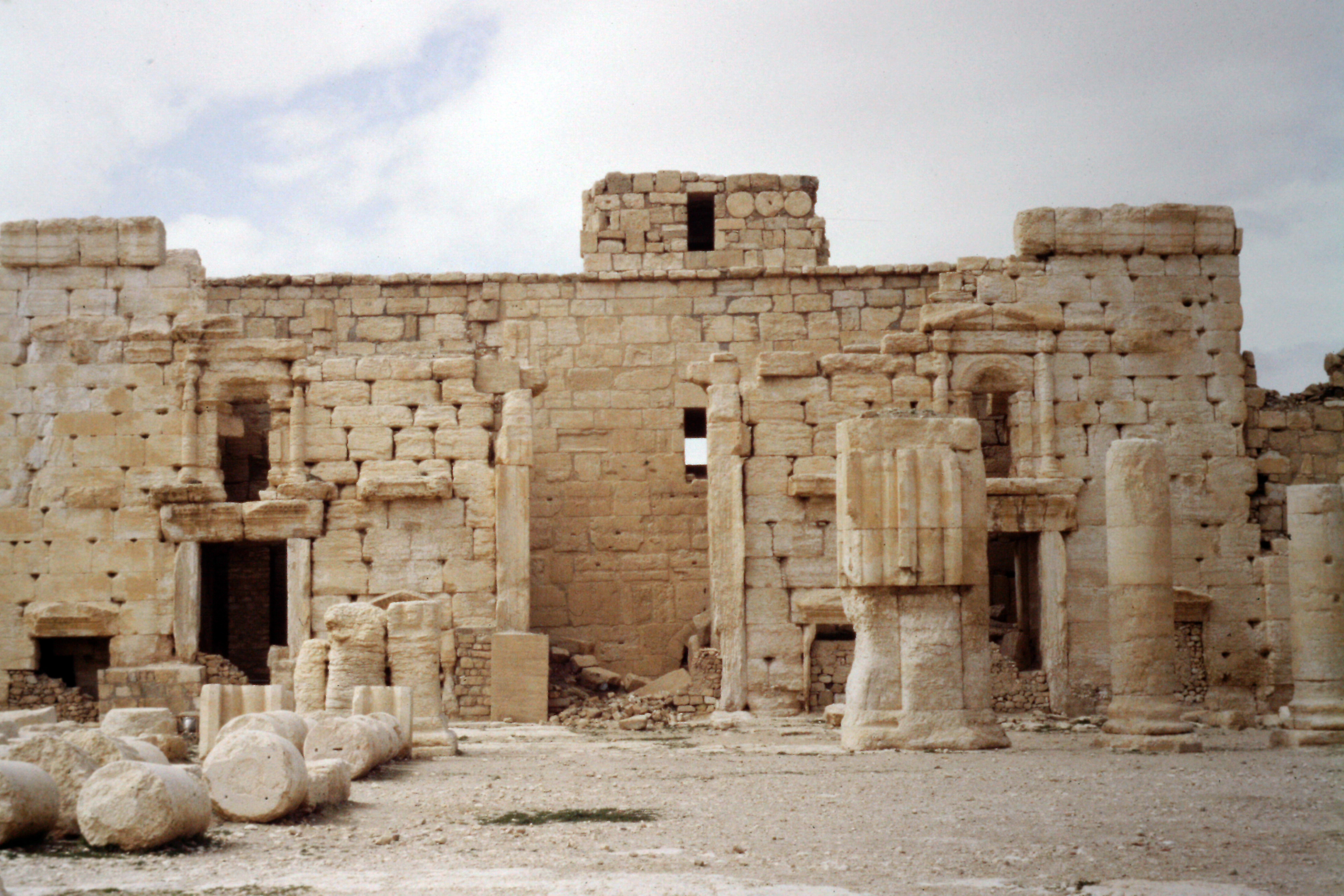 Temple of Baal, Palmyra, in 1993